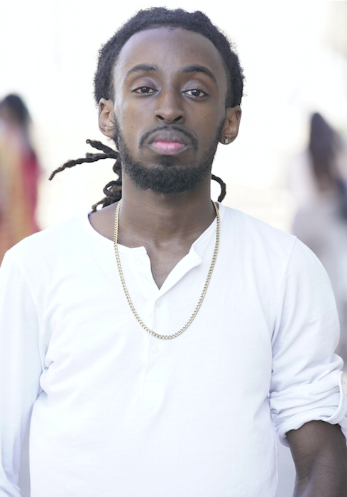 Choreographer